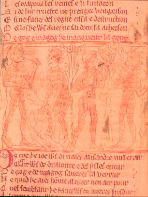 Depiction of Gog and Magog, horrible giants thought to be ancestors of the Mongols. From Romance of Alexander, Trinity College, Cambridge.